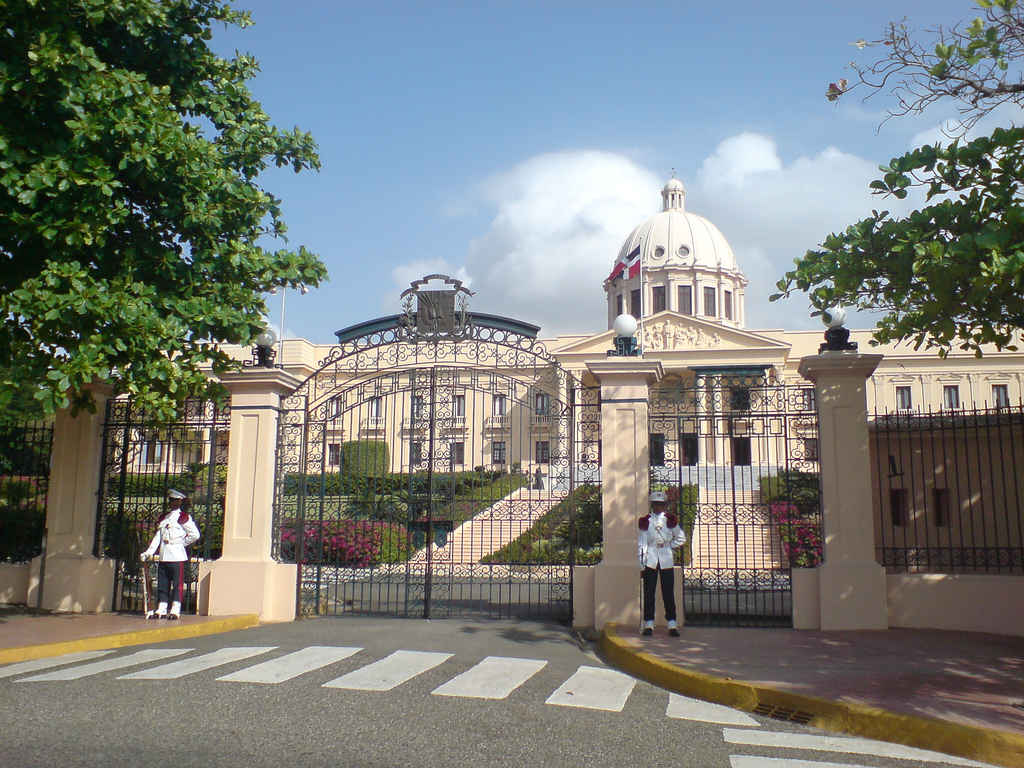 National Palace Dominican Republic.